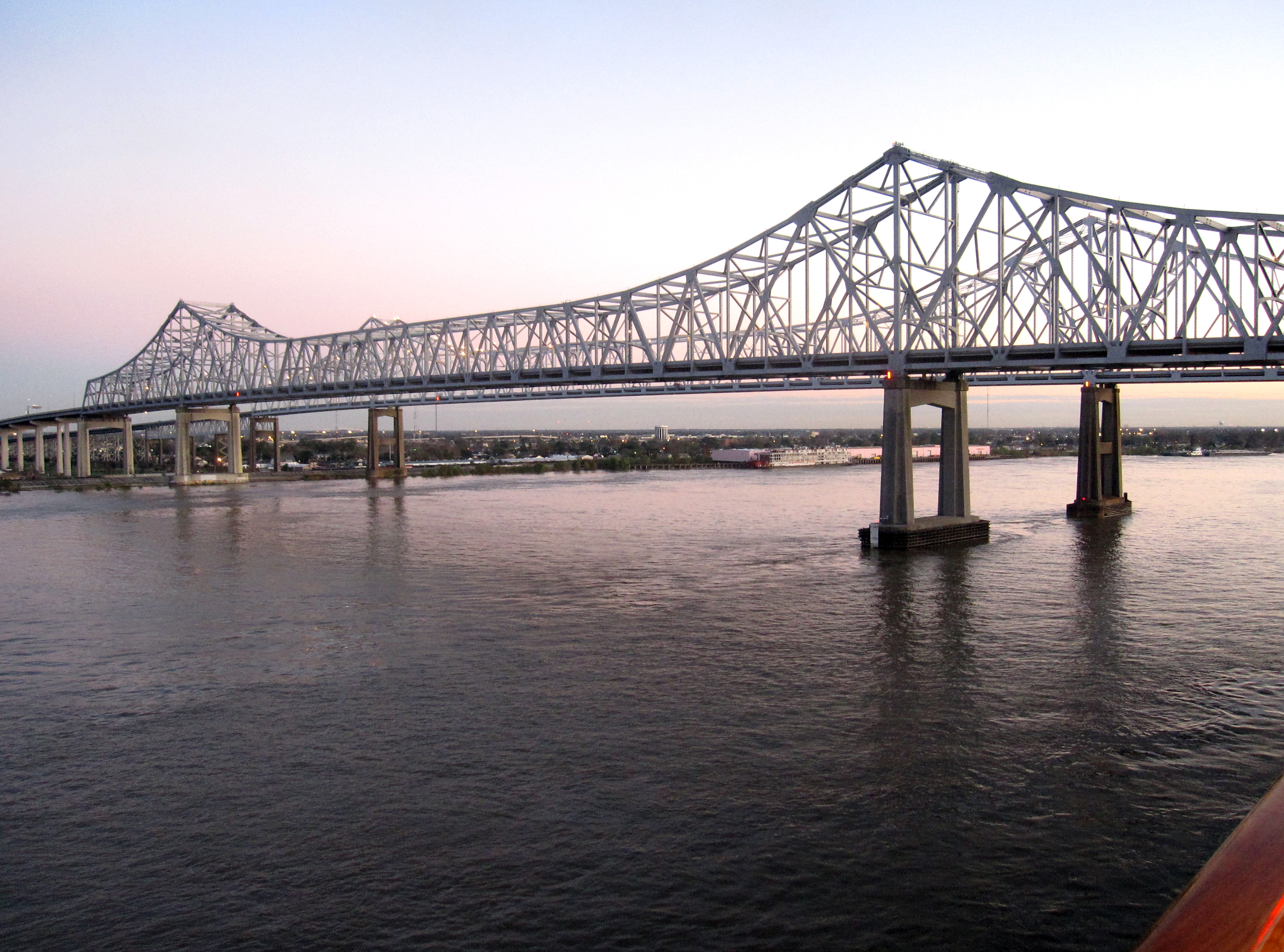 The Crescent City Connection over the Mississippi River in New Orleans, Louisiana